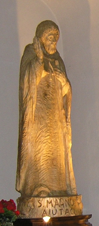 Statue of Saint Magnus in his sanctuary at Castelmagno (Italy)